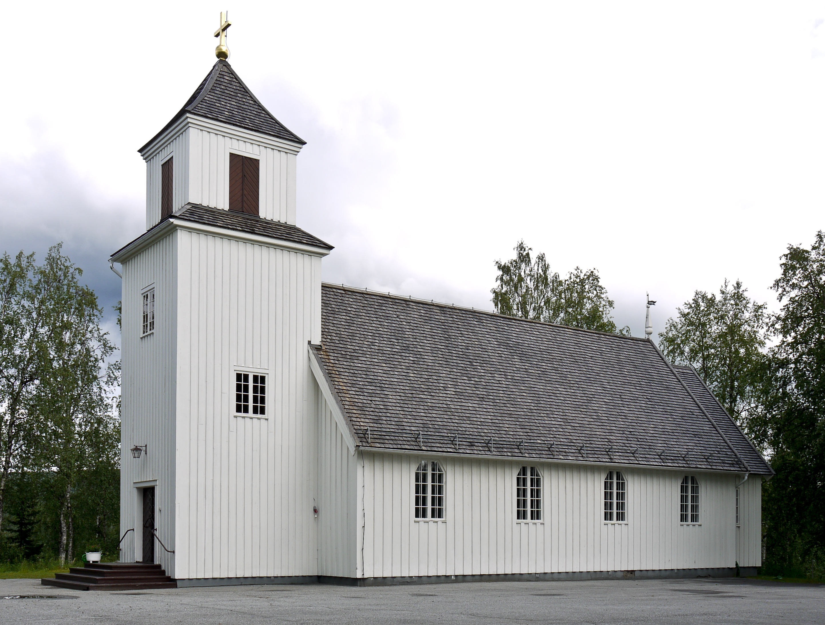 Umnäs kyrka/church. Storuman, Diocese of Luleå, Västerbotten county. Sweden.